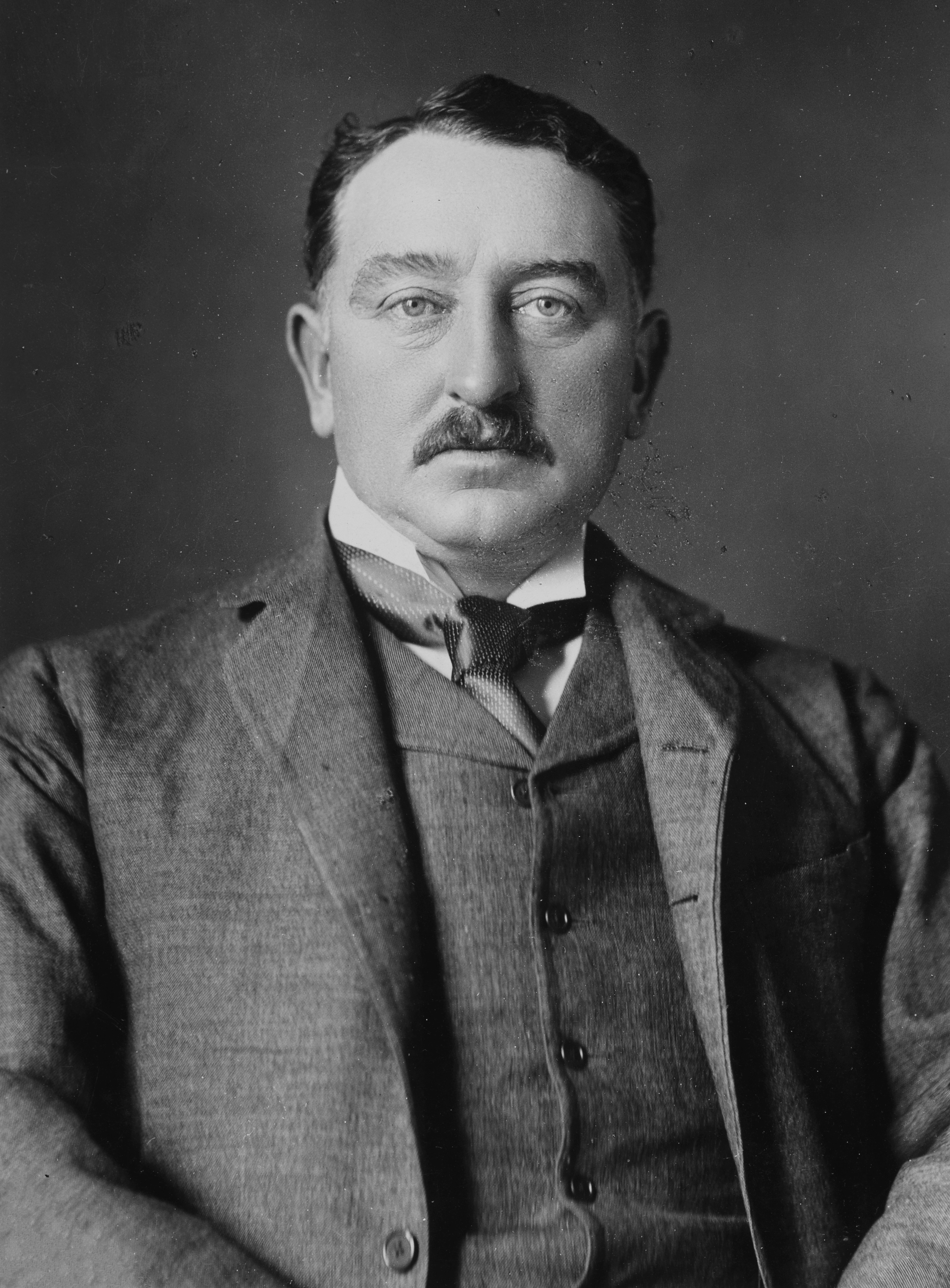 Cecil (John) Rhodes, British financier and politician. He built an empire in South Africa. Prime minister of Cape Colony (1890-96). Organizer of the diamond mining company (De Beers Consolidated Mines Ltd. (1888))